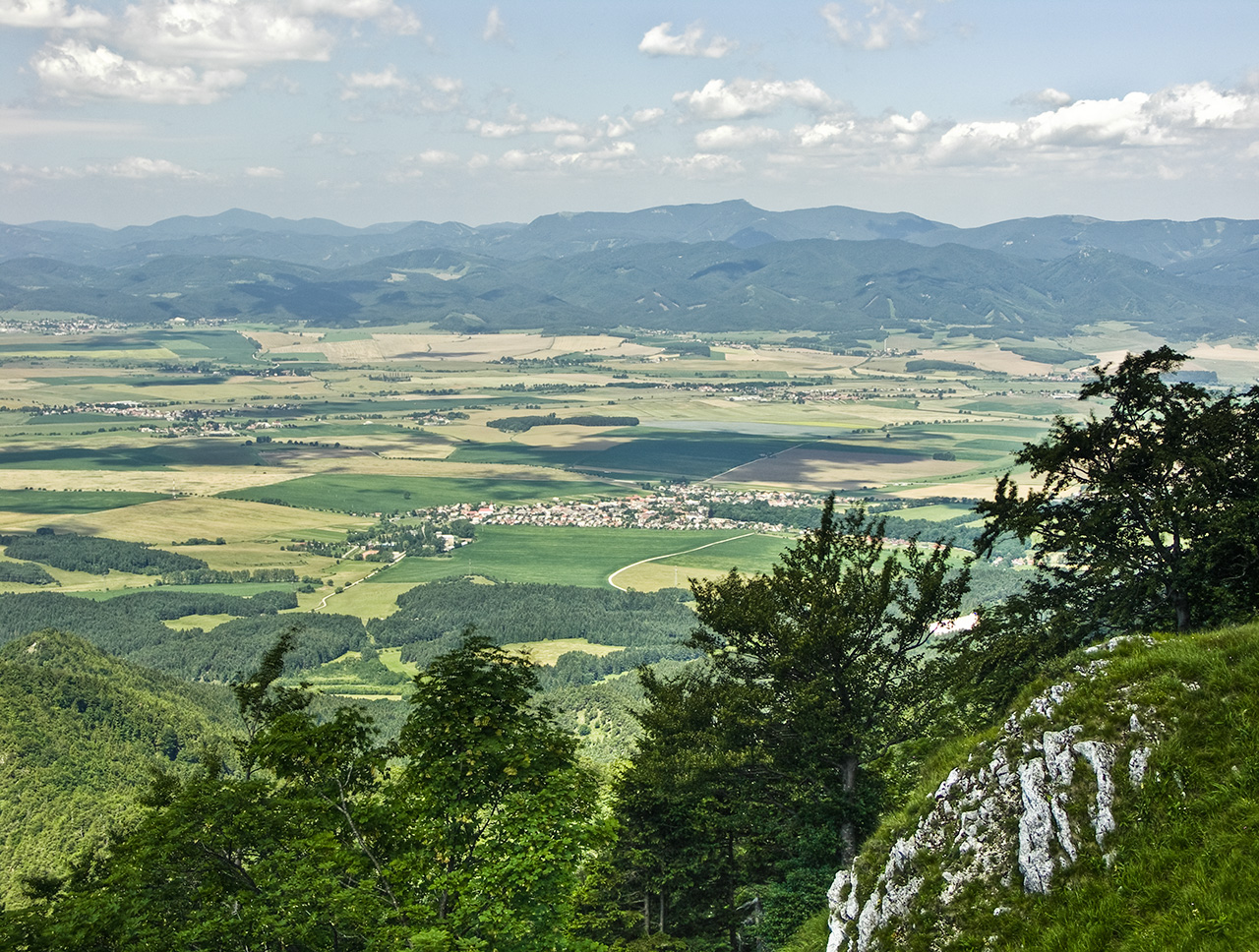 View from Drieňik at the Turiec Basin